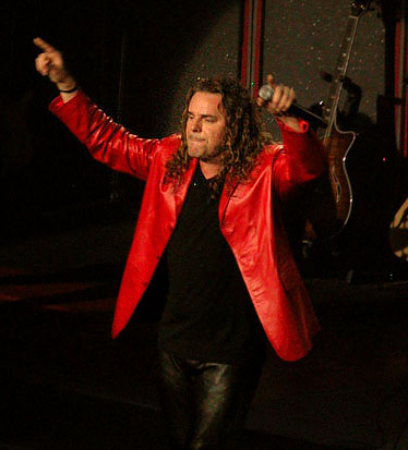 Mana live in Uncasville, CT - October 2007